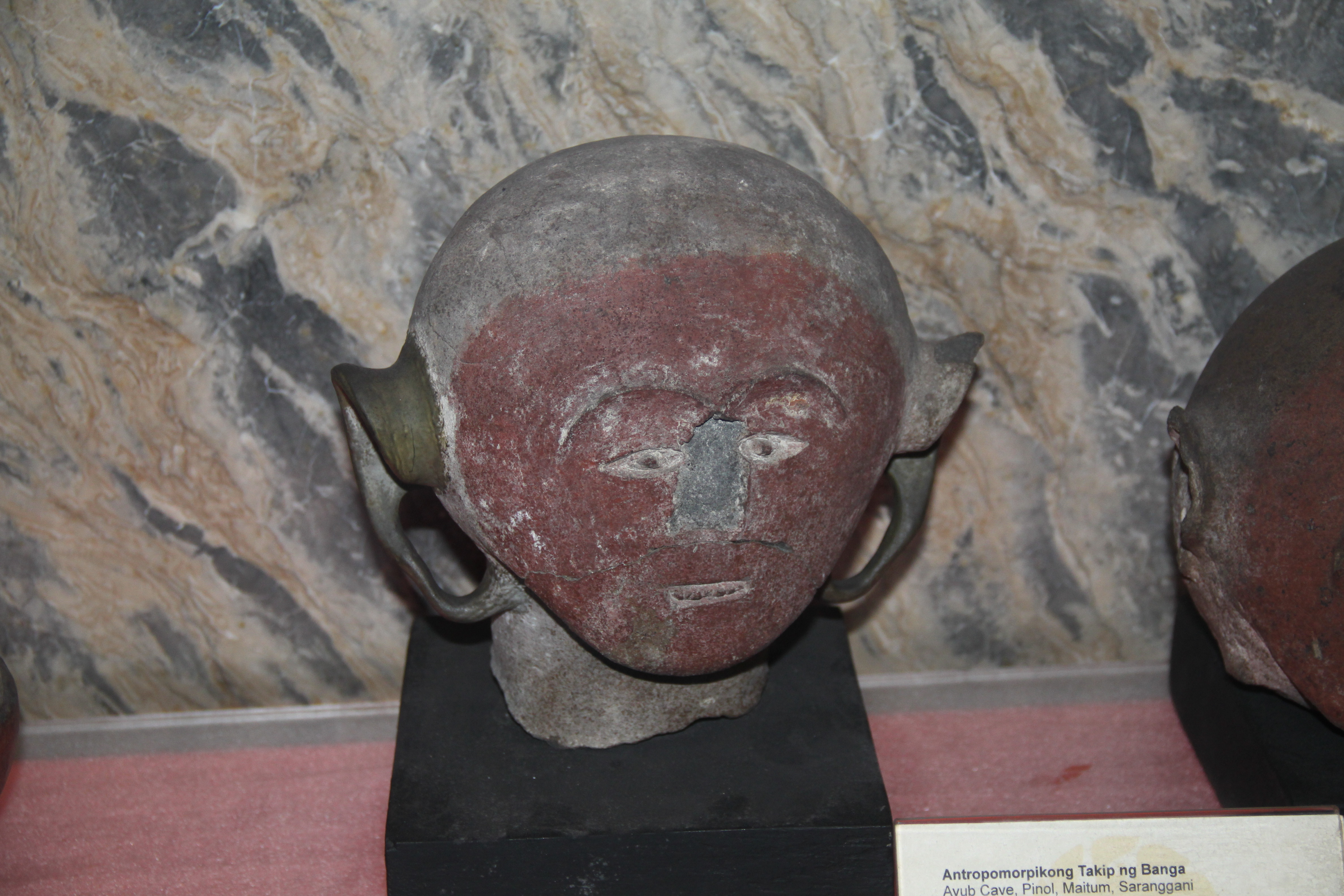 Mindanao Metal Age Burial Pottery Gallery, Museum of the Filipino People, Rizal Park, Manila, Philippines. Complete indexed photo collection at .